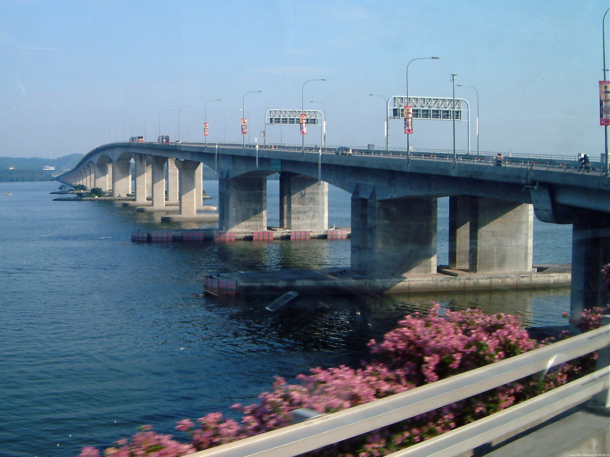 A View of the Malaysia-Singapore Second Link (Linkedua) from Singapore, looking towards Malaysia Img by Calvin Teo, June 2005